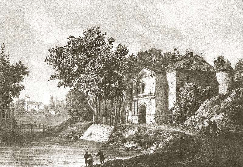 Castel in Vysokаje